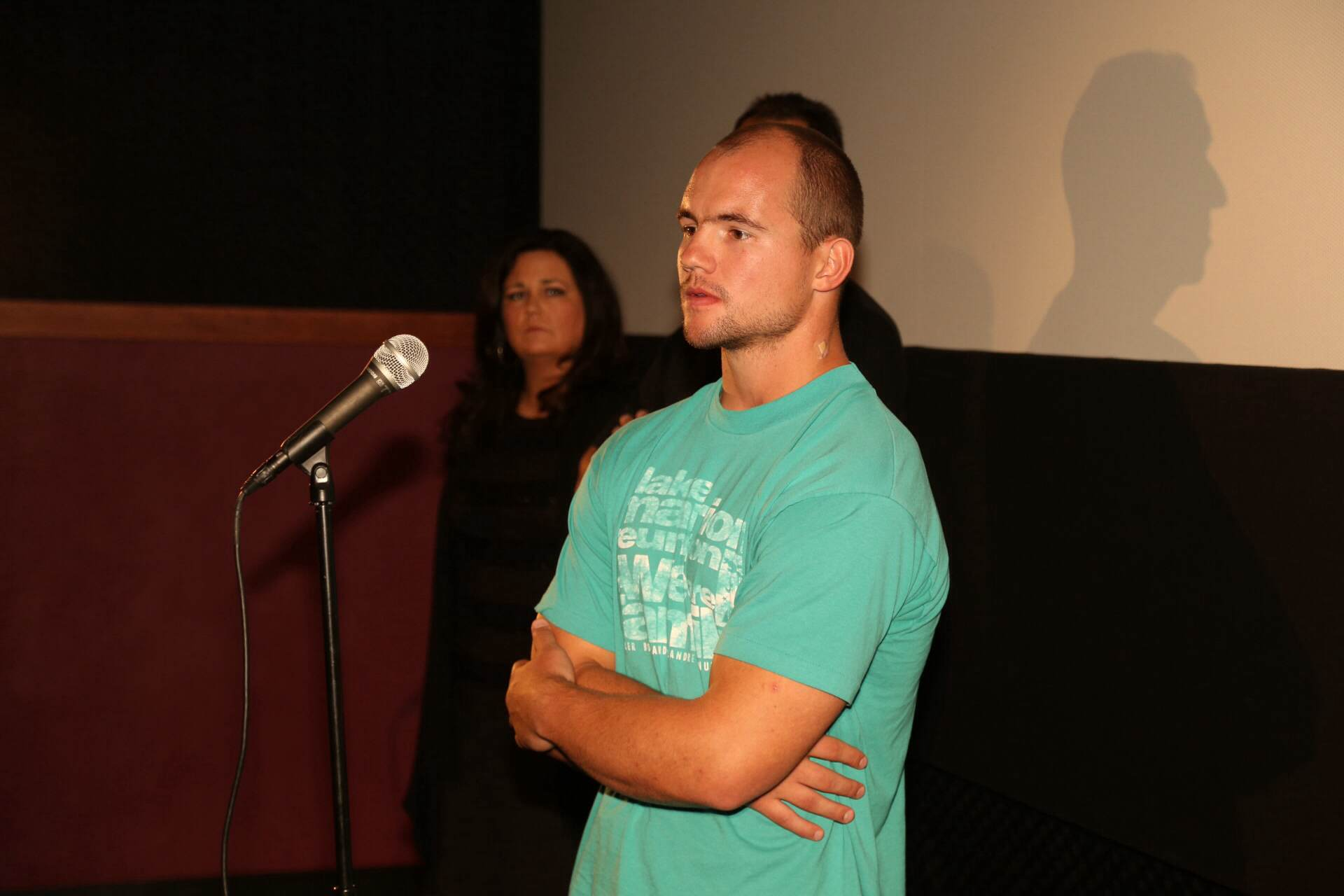 Borland attended the premier of GridIron Gladiators directed by Todd Trigsted